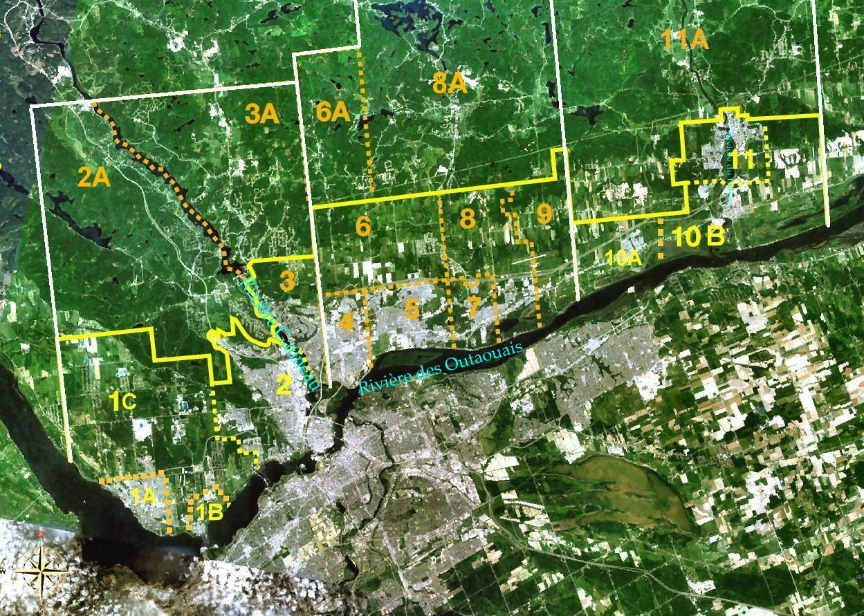 Map of Gatineau with original townships and former municipalities. See also: Image:Gatineau former map.jpg.